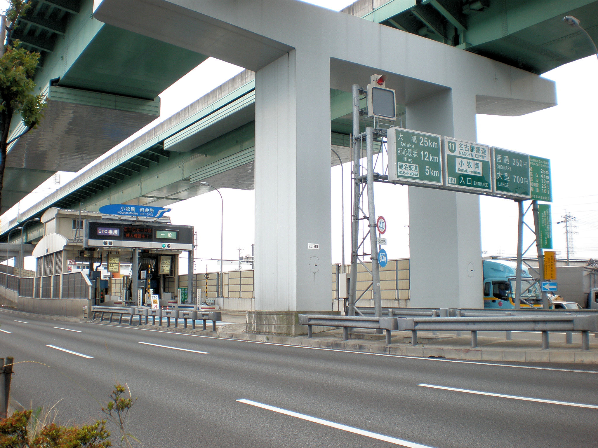 Komaki-minami Entrance on the Nagoya Expressway Route 11 in Komaki City, Aichi Prefecture, Japan